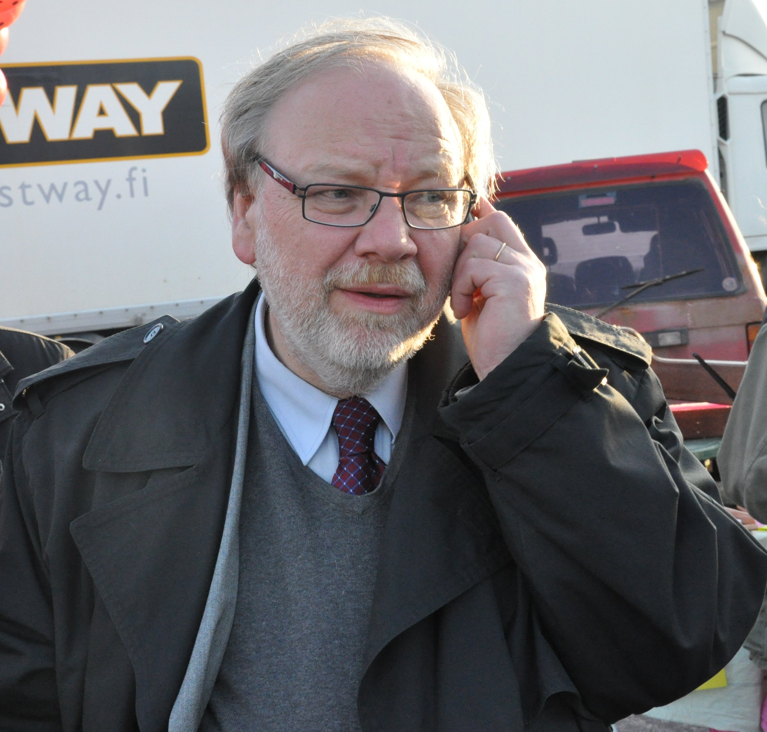 Finnish journalist Björn Månsson at an EU election event in Turku, Finland 2009.